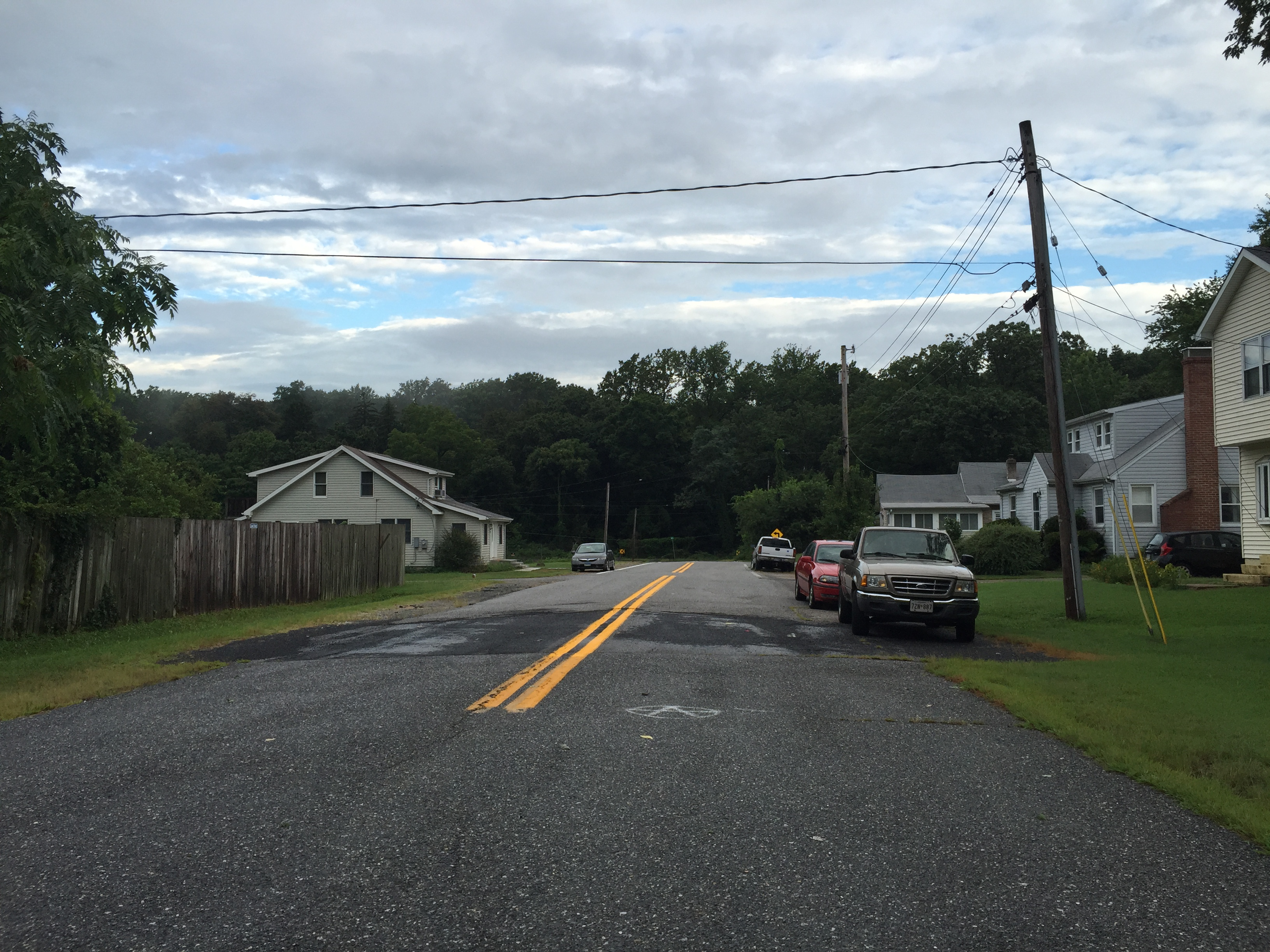 View west at the east end of Maryland State Route 784 (Pafel Road) in Parole, Anne Arundel County, Maryland